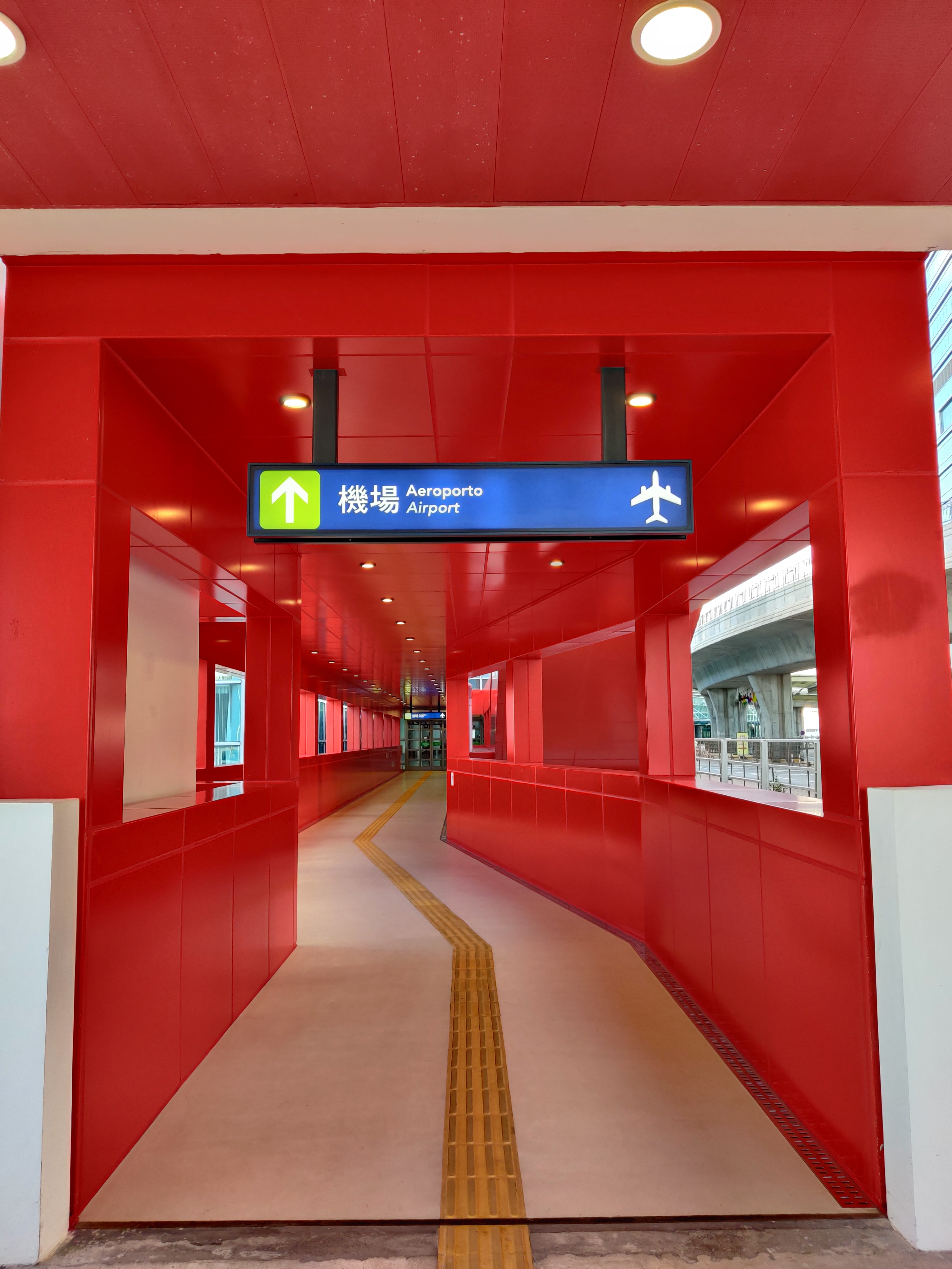 The way out of Macau LRT Airport Station, Exit B.